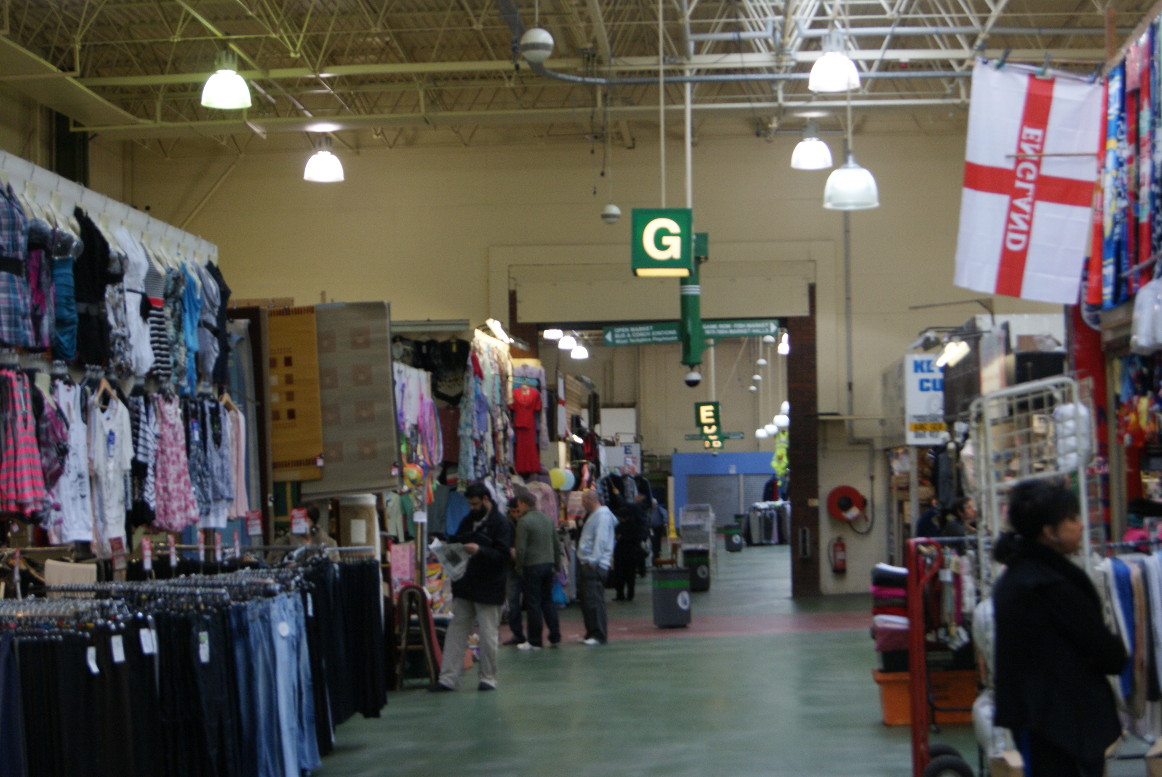 Inside the Kirkgate Market in Leeds, West Yorkshire. Taken on the afternoon of Tuesday the 4th of May 2010. Looking from the 1981 hall through to the 1976 hall.